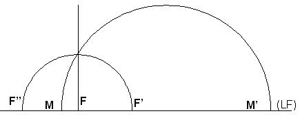 two perpendicular directions